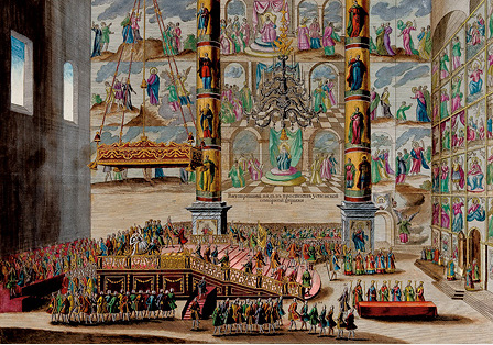 The coronation of Empress Elizabeth in the Dormition Cathedral